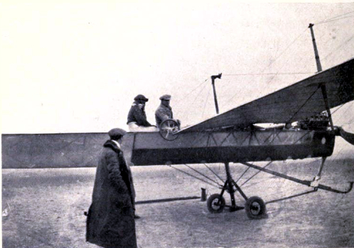 Anthony Wilding, on his first flight, near Reims, France, 1910